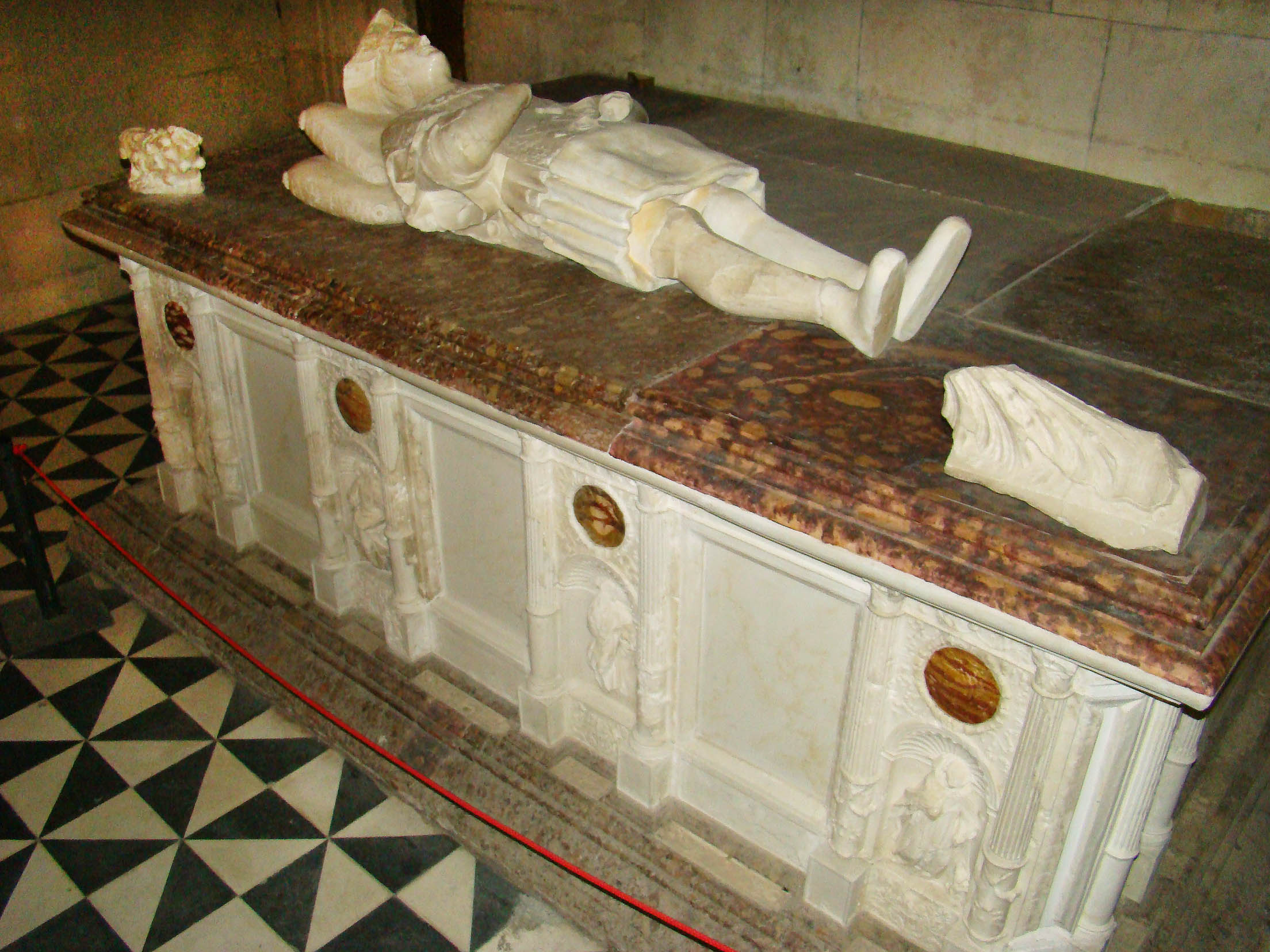 Cenotaph of Don Juan Manuel in the church of San Pablo of Peñafiel (Valladolid) Spain.